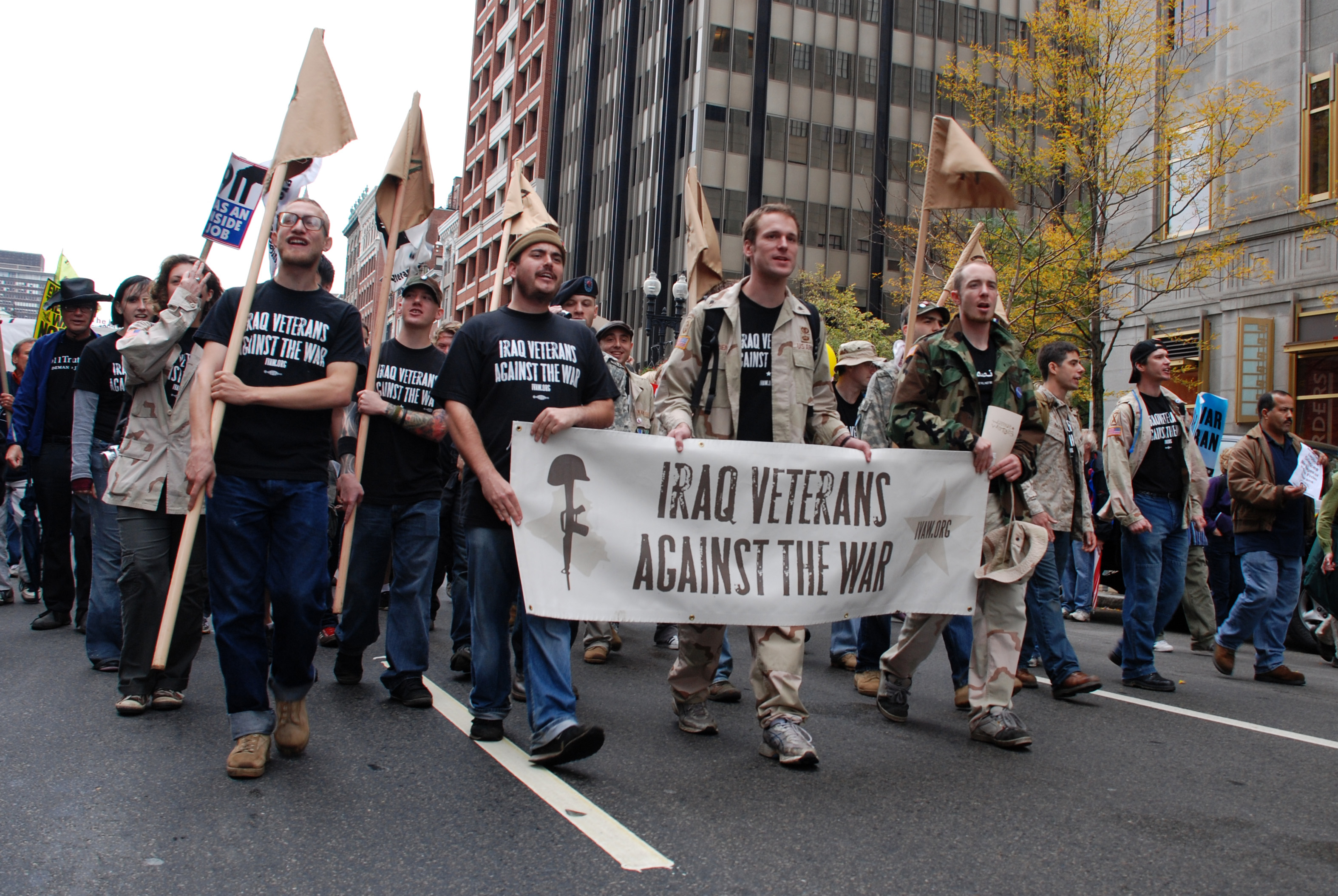 Iraq Veterans Against the War marching in Boston at the New England Anti-war Mobilization.